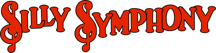 The title "Silly Symphony" as stylized by Disney